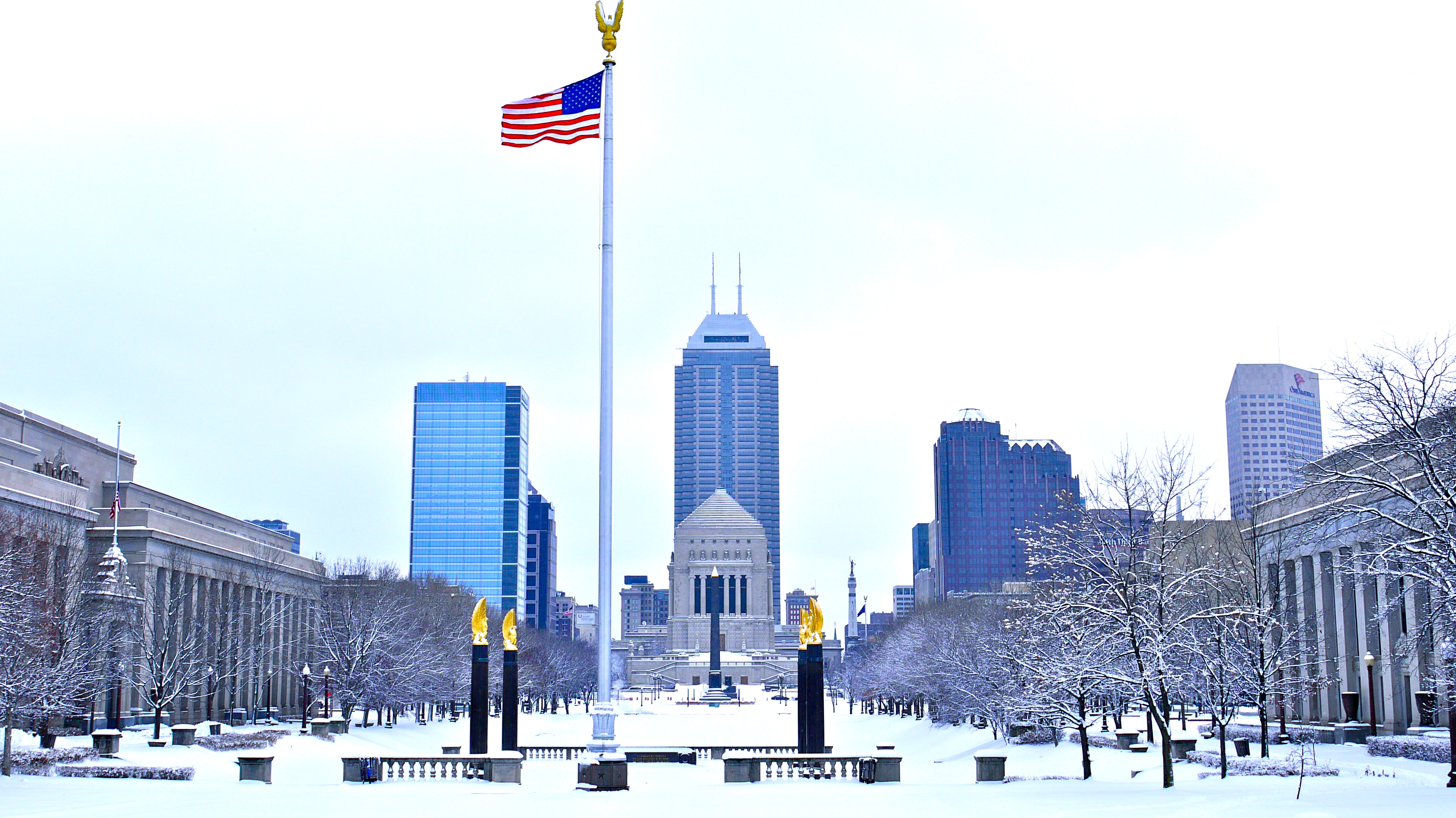 downtown Indianapolis, February. North end of the American Legion Mall, looking due south along the length of the mall.